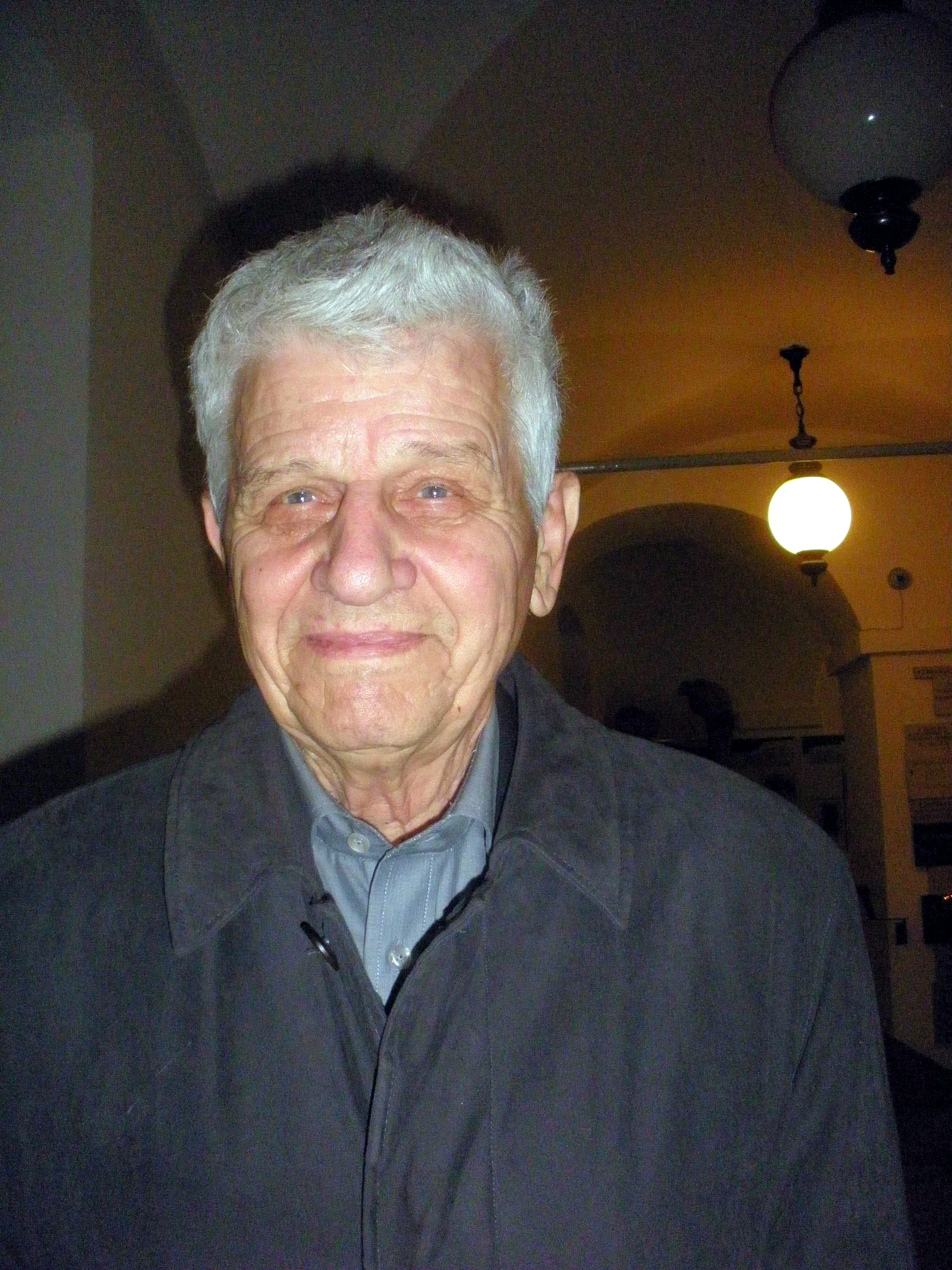 Publisher, professor, and translator Dr. Kajetan Gantar(Slovenian Wikipedia)